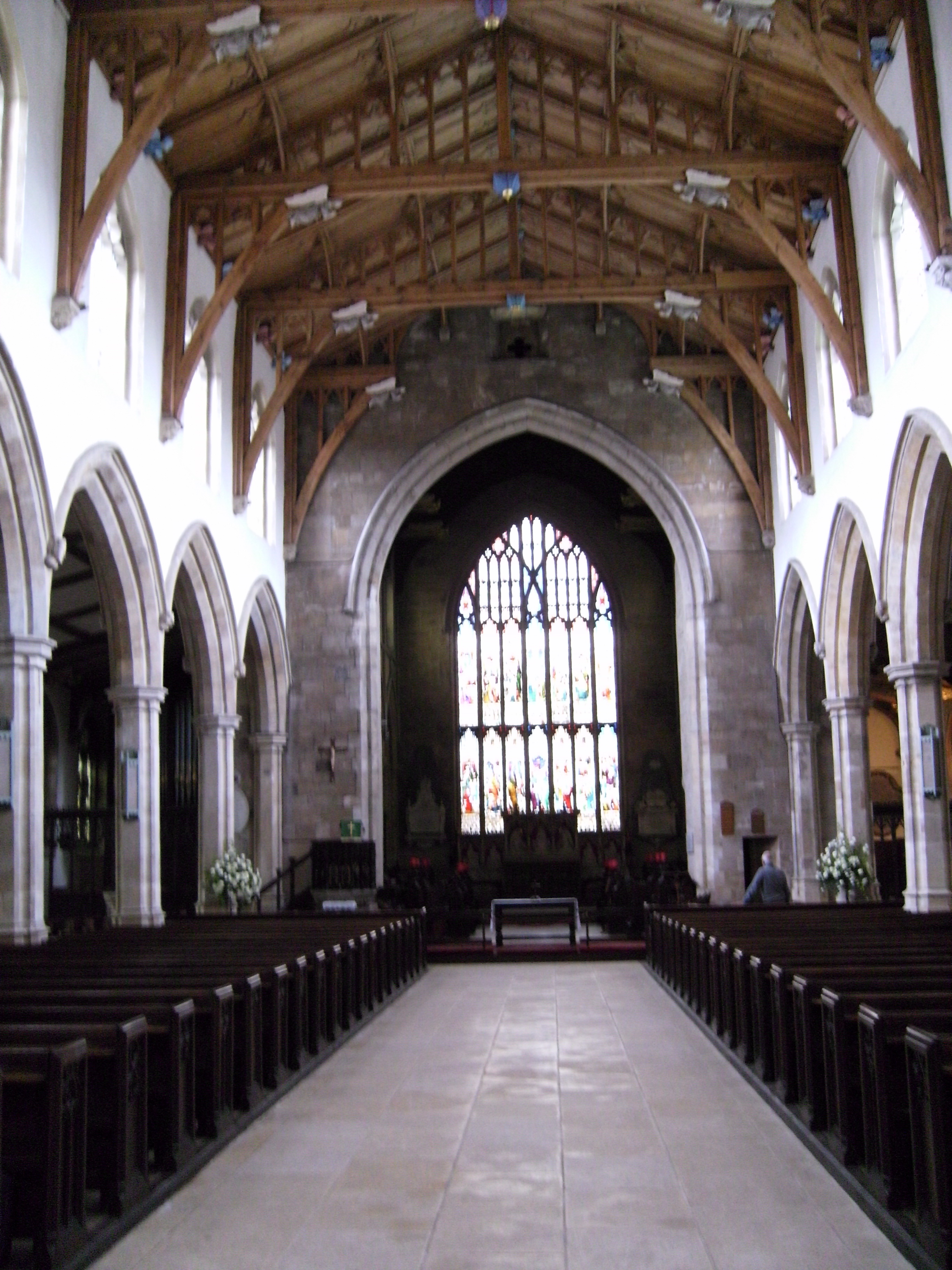 Nave and chancel of St James church, Louth, Lincolnshire, UK.